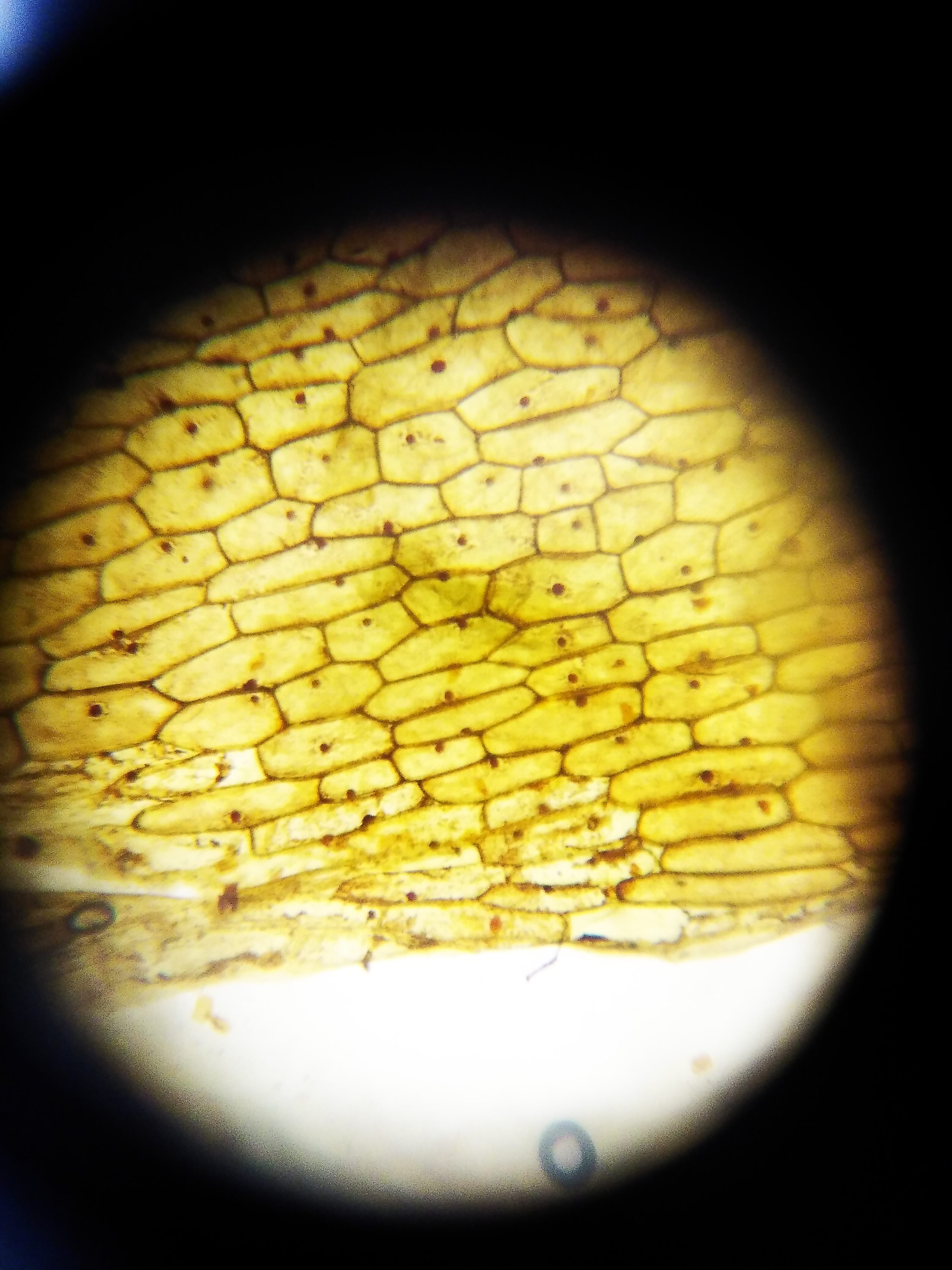 Plasmolysis of skin cells onion.